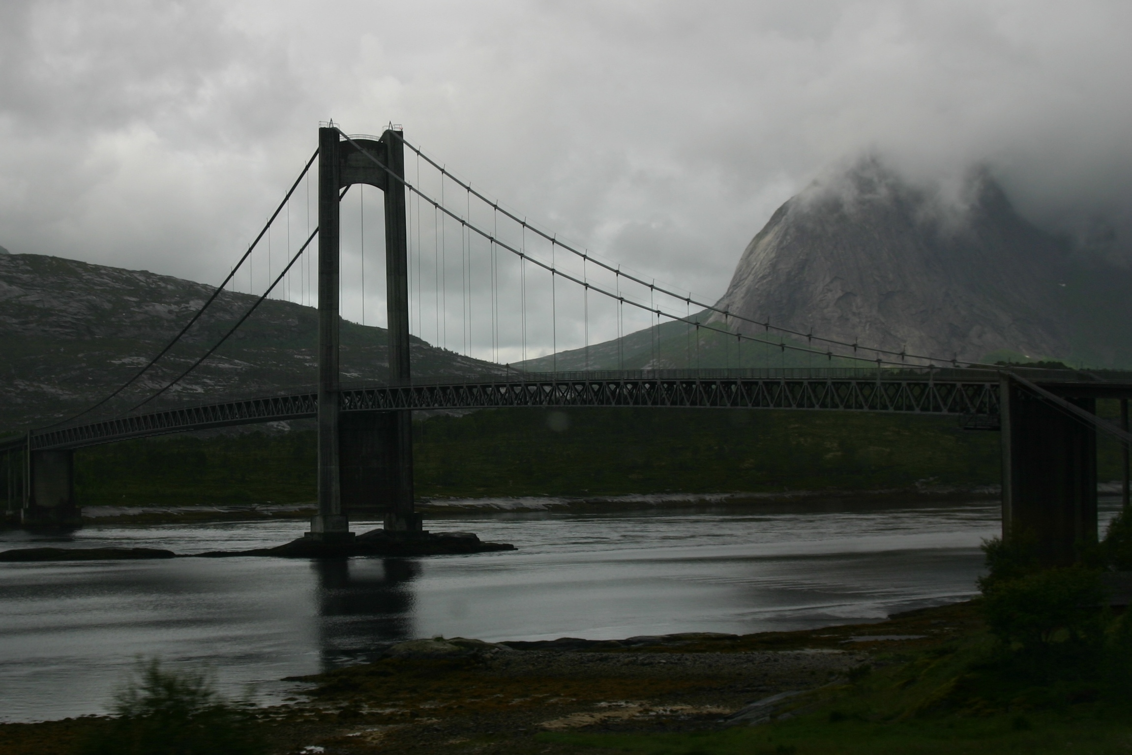 Kjerringstraumen Bridge near Narvik in Norway. It is the longest of the three bridges that bring road E6 across Efjord. Originally mislabeled as Rombak Bridge.